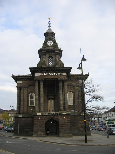 Old Town Hall, Burslem The Old Town Hall adorned with the golden angel mentioned in Arnold Bennet's books. The building now houses the Ceramica exhibition.